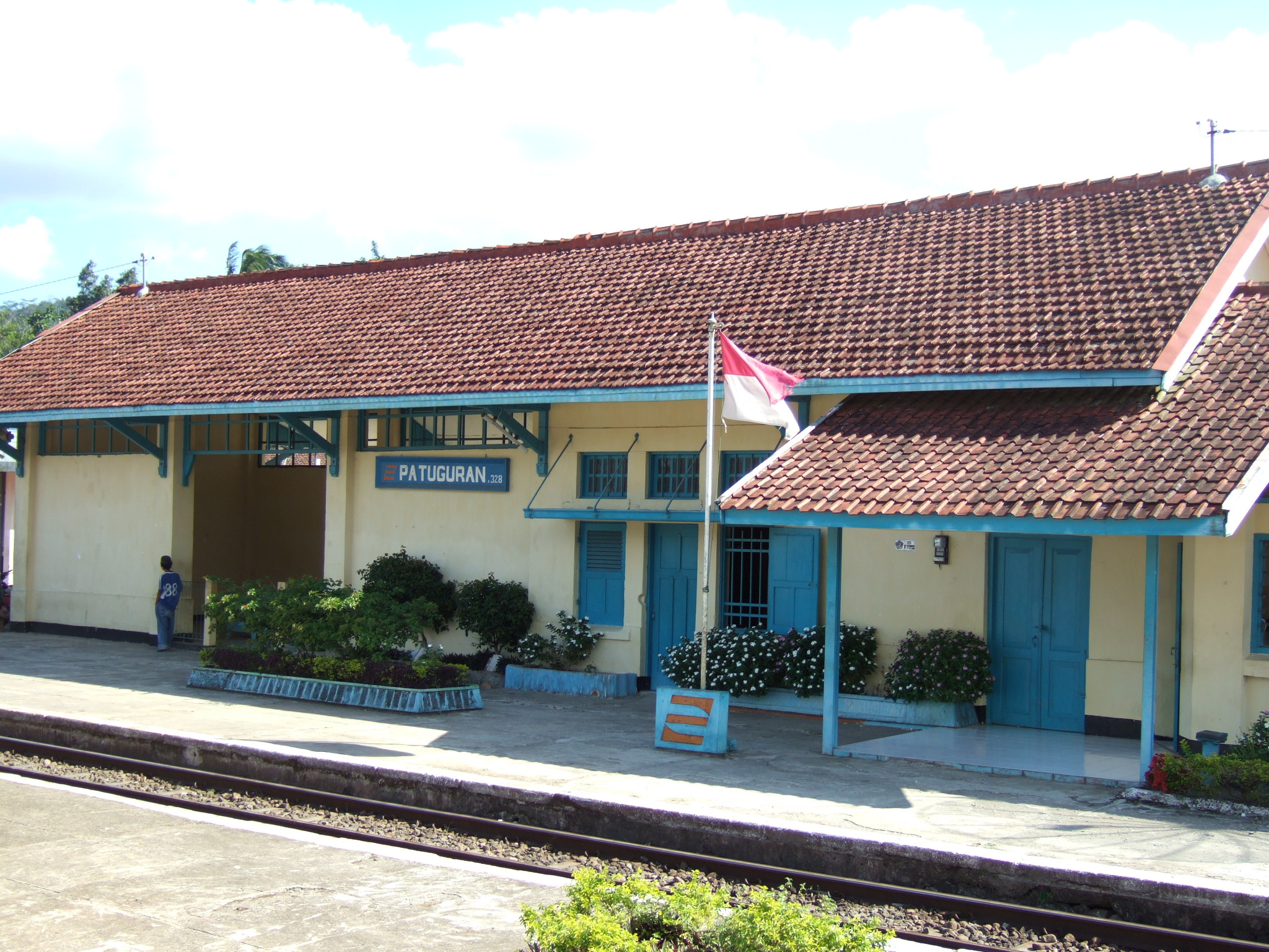 Patuguran Station, Brebes, Central Java, Indonesia